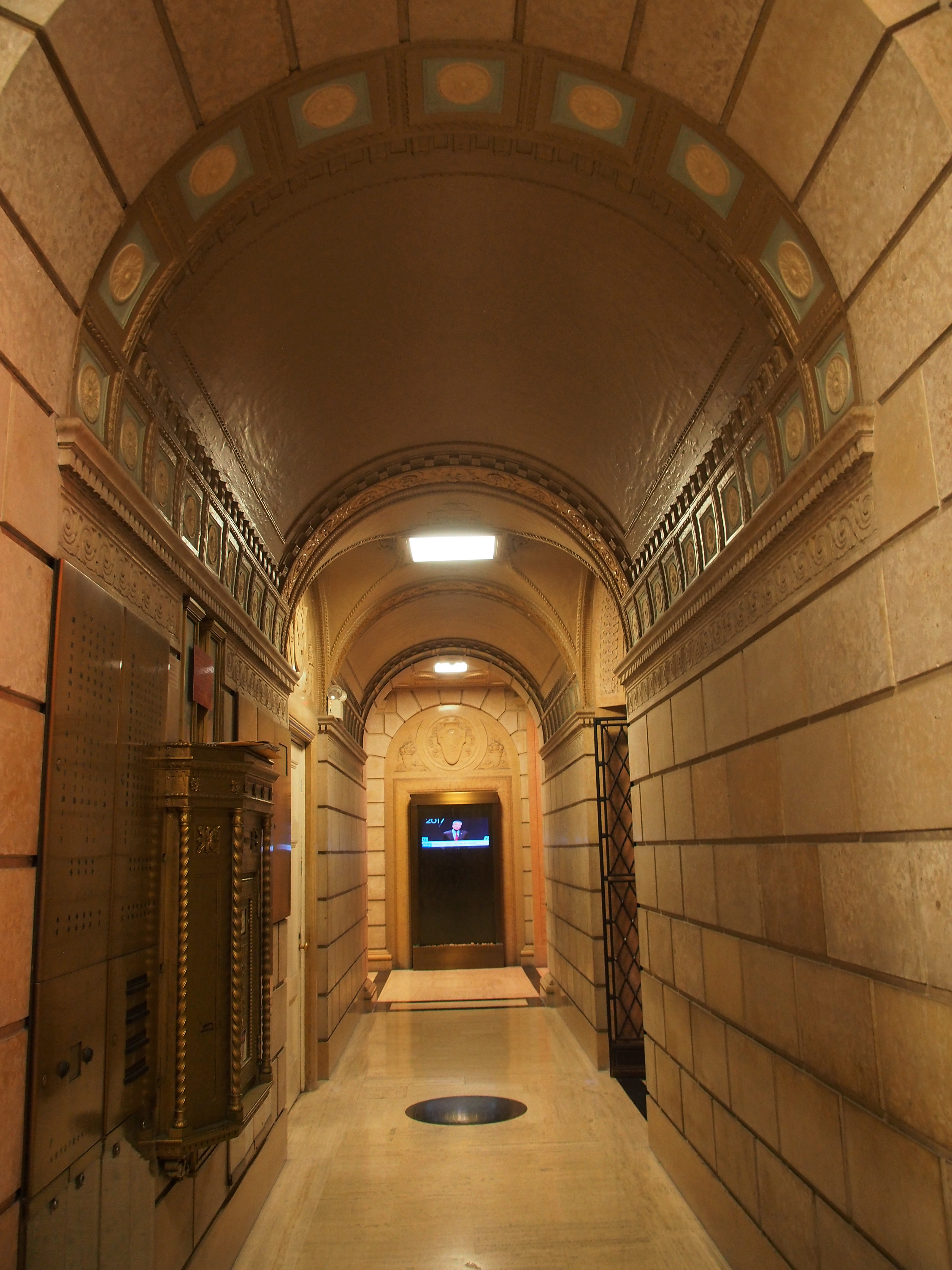 A shot of the lobby at the Cornell AAP NYC Studio / Standard Oil Building.Site: Cornell AAP NYC Studio / Standard Oil Building